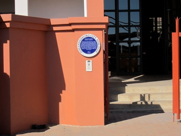 Orlando east entrance with blue plaque and Joburgpedia Plaque